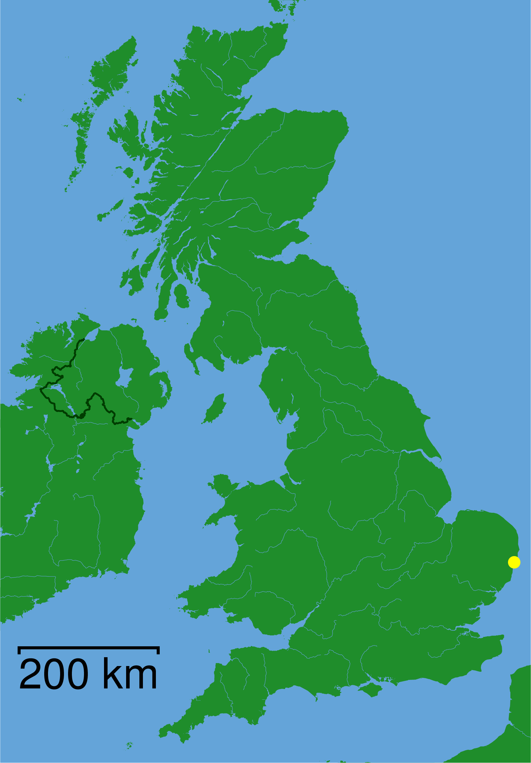 Situation of Southwold, Suffolk, England, U.K.